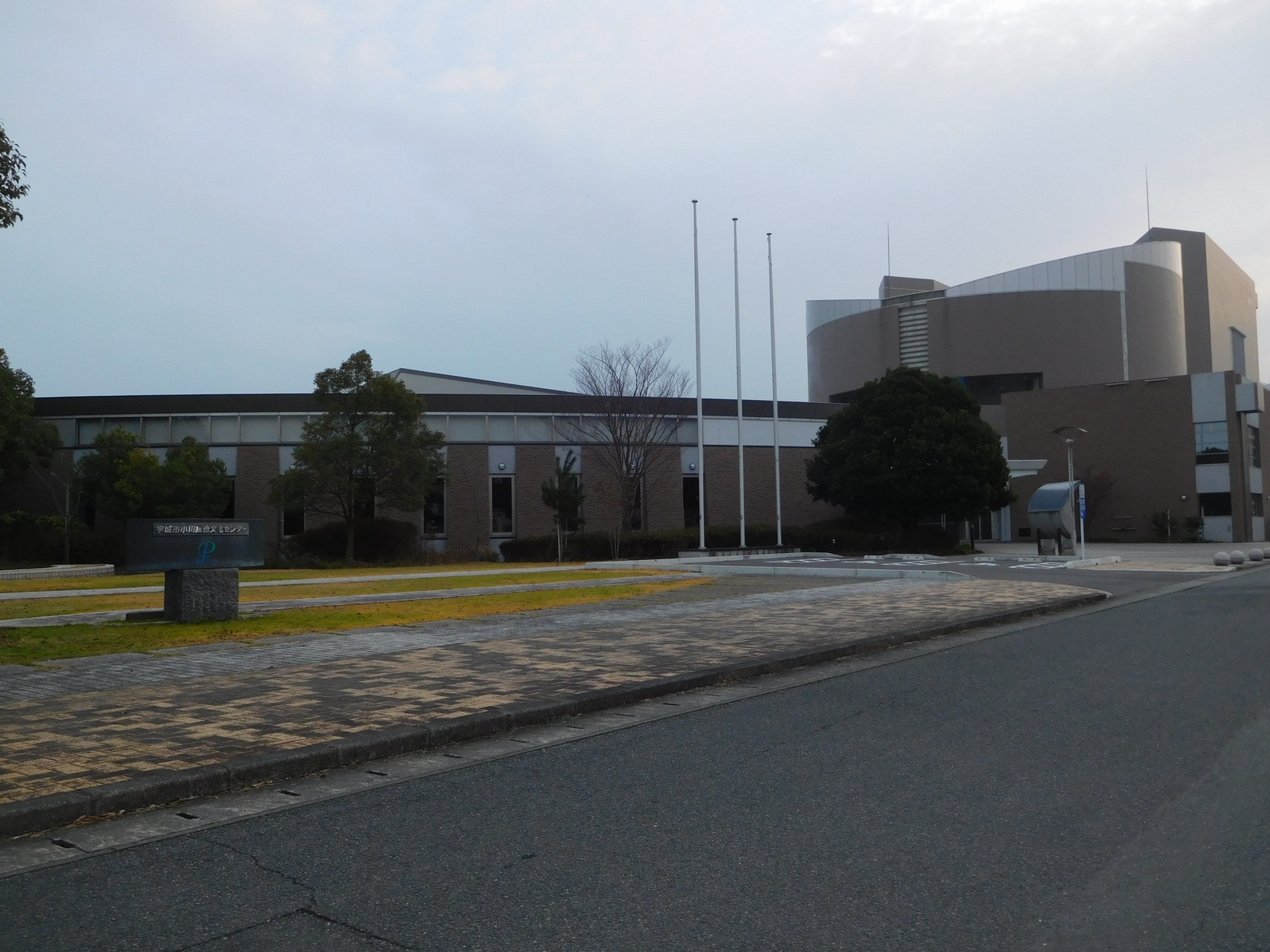 Uki City Ogawa Cultural Center "Laport" and Ogawa Branch Office (Kumamoto Prefecture, Japan)